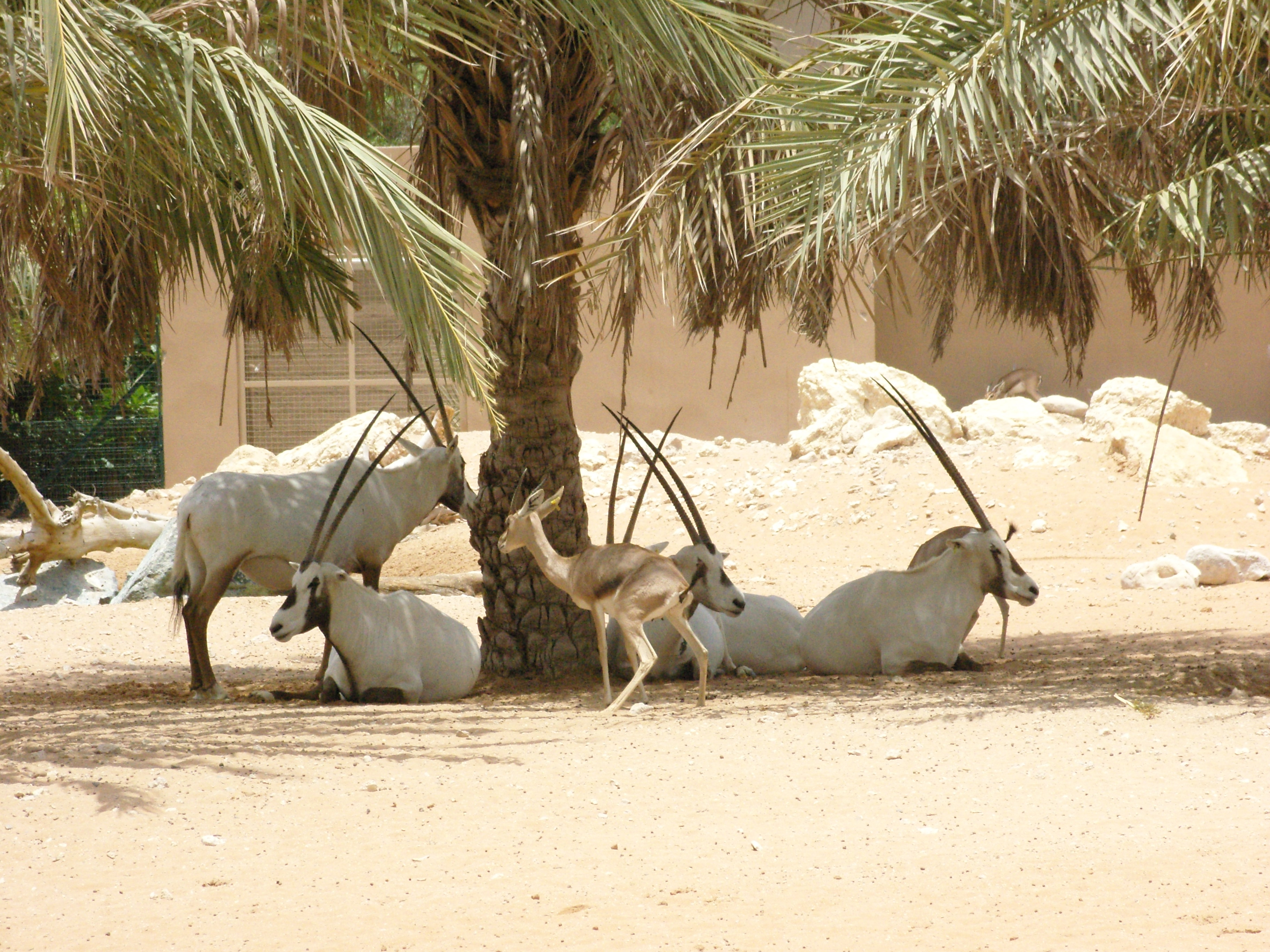 While the Gemsbok tuck in, the true animals of the desert, the Arabin Oryx, surprisingly prefer to take shelter under a tree. The Arabian oryx (Oryx leucoryx) or white oryx is a medium-sized antelope with a distinct shoulder bump, long, straight horns, and a tufted tail. It is a bovid, and the smallest member of Oryx genus, native to desert and steppe areas of the Arabian Peninsula. The Arabian oryx was extinct in the wild by the early 1970s, but was saved in zoos and private preserves and reintroduced into the wild starting in 1980. The animal in the foreground is a Thomson's Gazelle, which was just going past. (Al Ain, UAE, Dec. 2012)